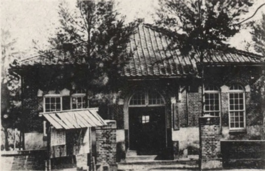 仁武庄役場